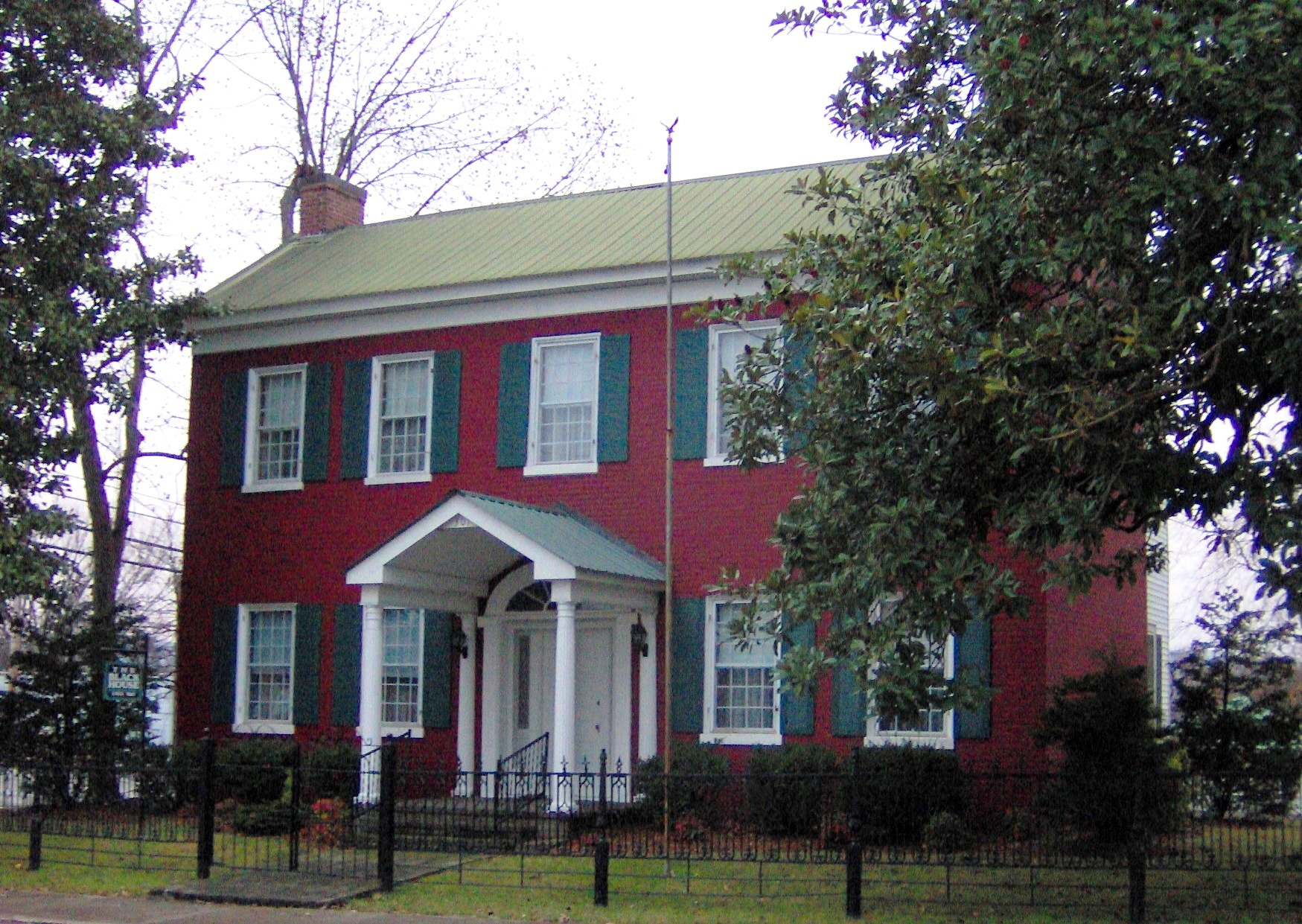 The Black House at 301 W. Main Street in McMinnville, Tennessee, in the southeastern United States. The house was built in 1825 by early McMinnville settler Jesse Coffee in 1825. The name "Black House" comes from Thomas Black, a physician who purchased the house in 1874 and used it as an office until the early 1900s. The house was added to the National Register of Historic Places in 1983.